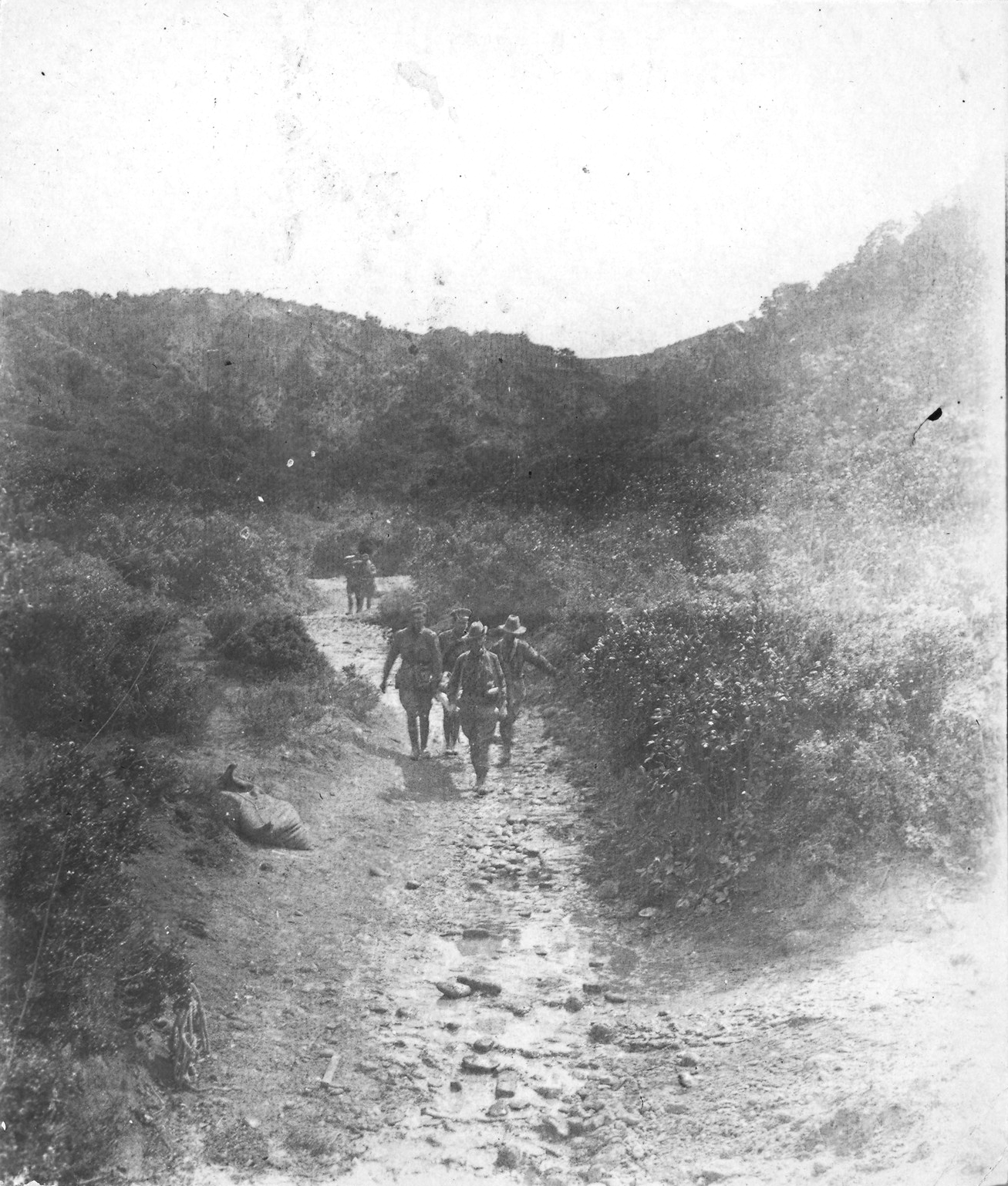 Australian 2nd Field Ambulance in action at Gallipoli